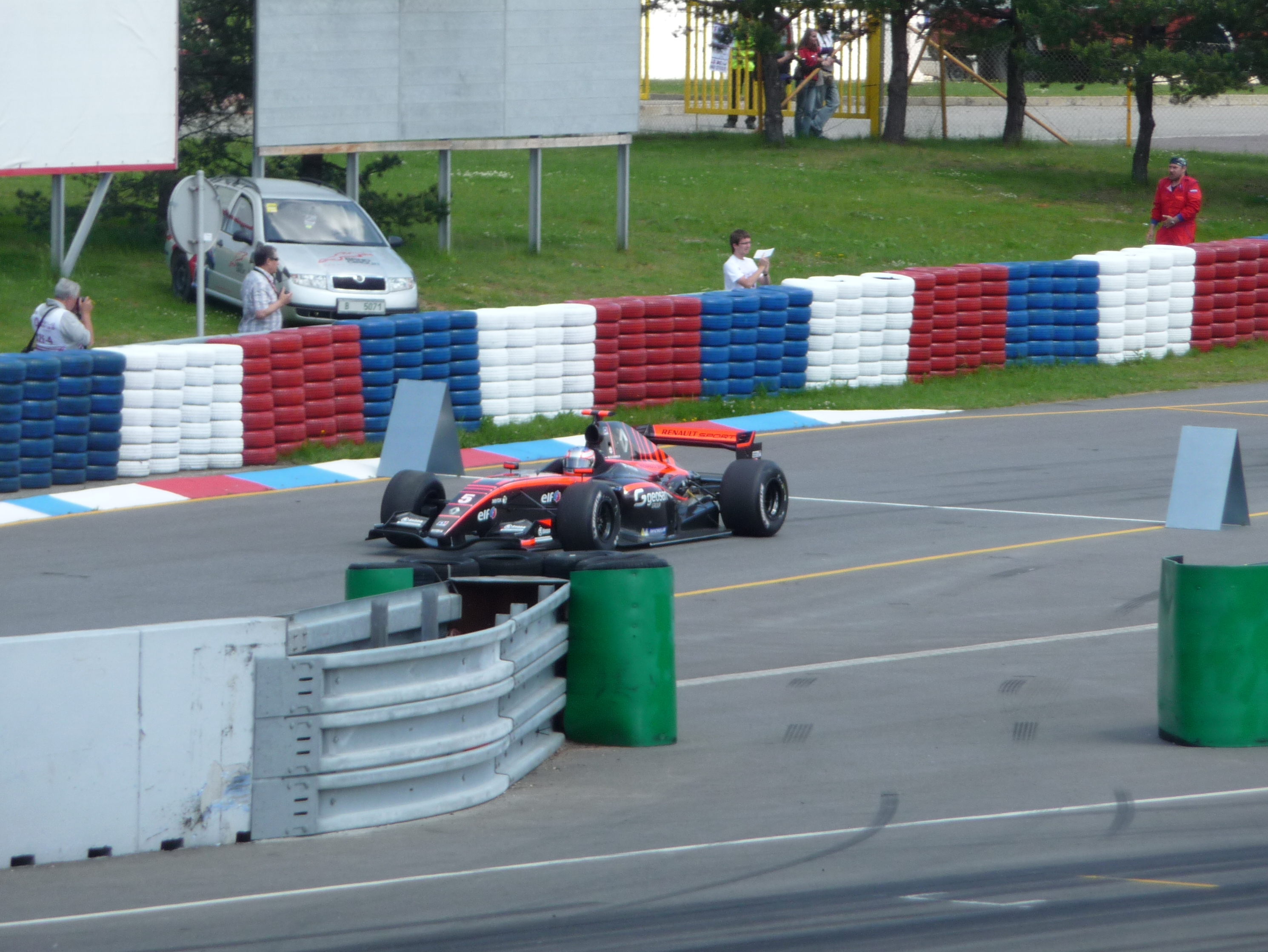 Walter Grubmüller, Formula Renault 3.5 Series, 2nd race, 2010 Brno World Series by Renault -10-5-3-2◄►+2+3+5+10